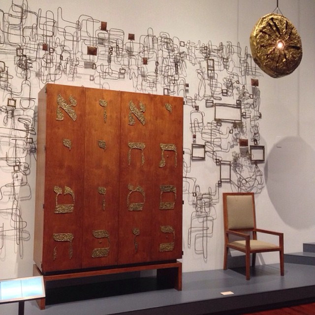 My favorite display at @TheJewishMuseum is this Philip Johnson-designed Torah ark and chairs with Ibram Lassaw's bimah screen and hanging Eternal Light. All from the 1950s Kneses Tifereth Israel (New York state)